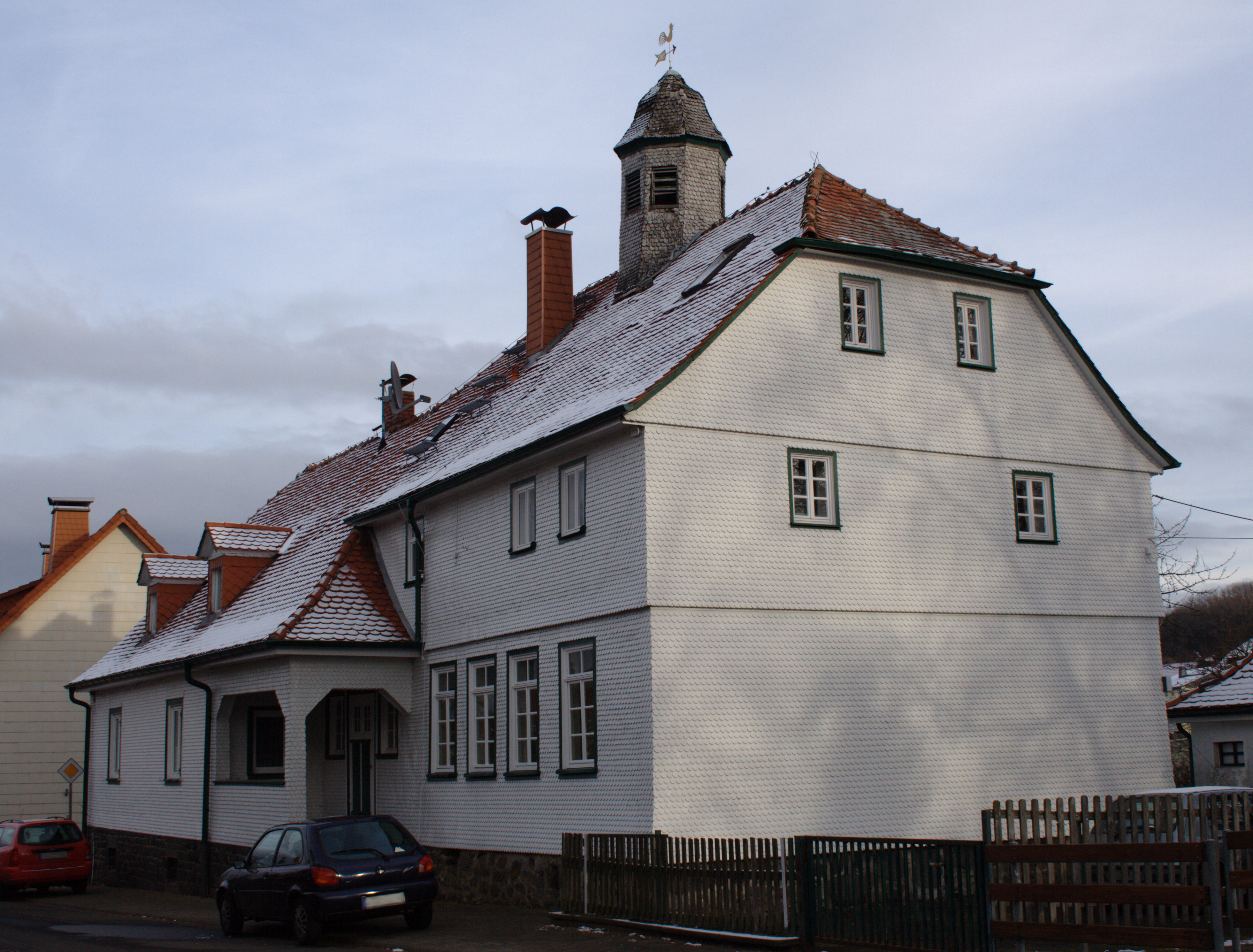 Former school in Eichelhain Eichenroeder Strasse, Lautertal, Hesse, Germany